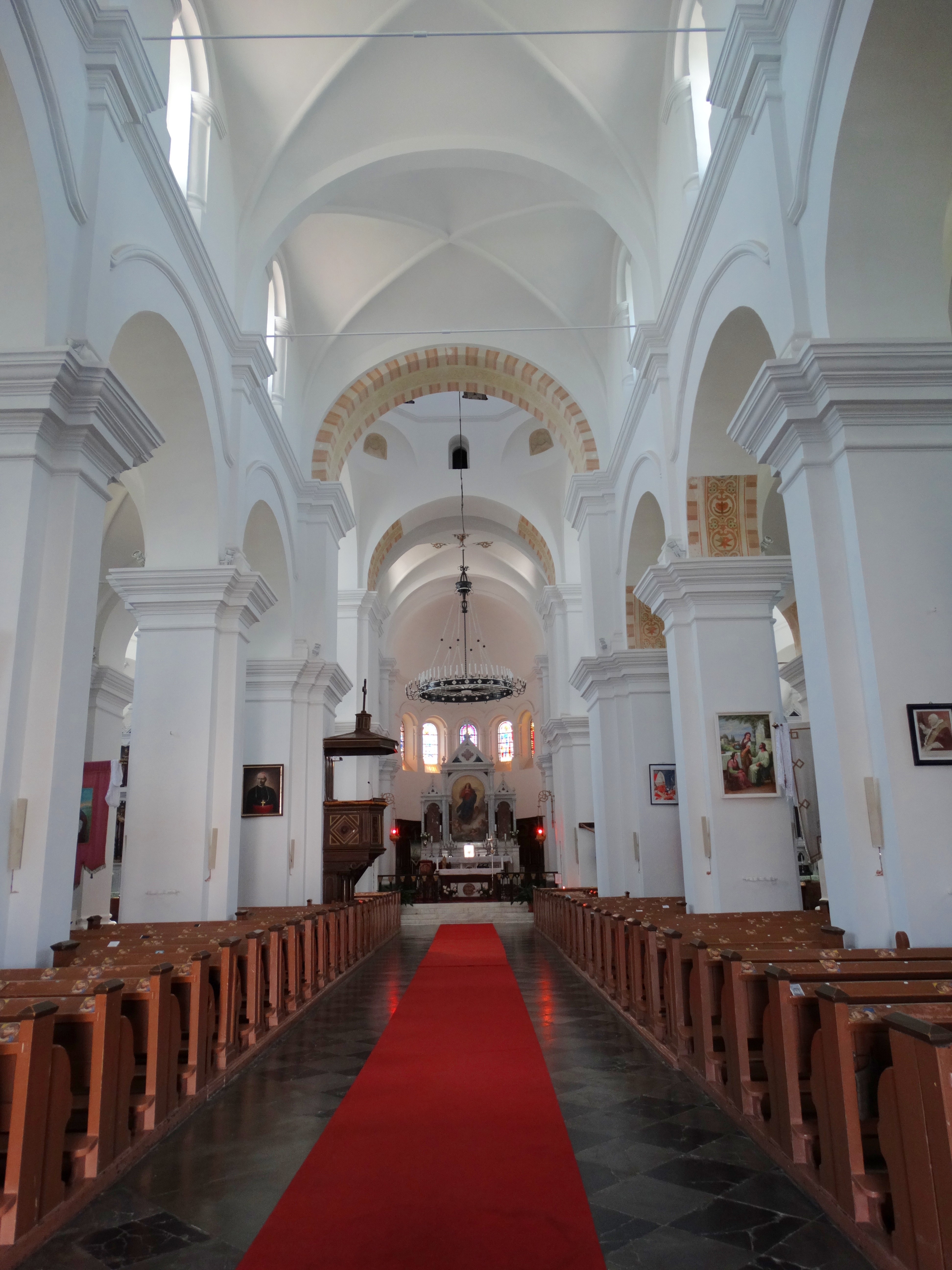 Church of St. Michael in Rietavas, Lithuania